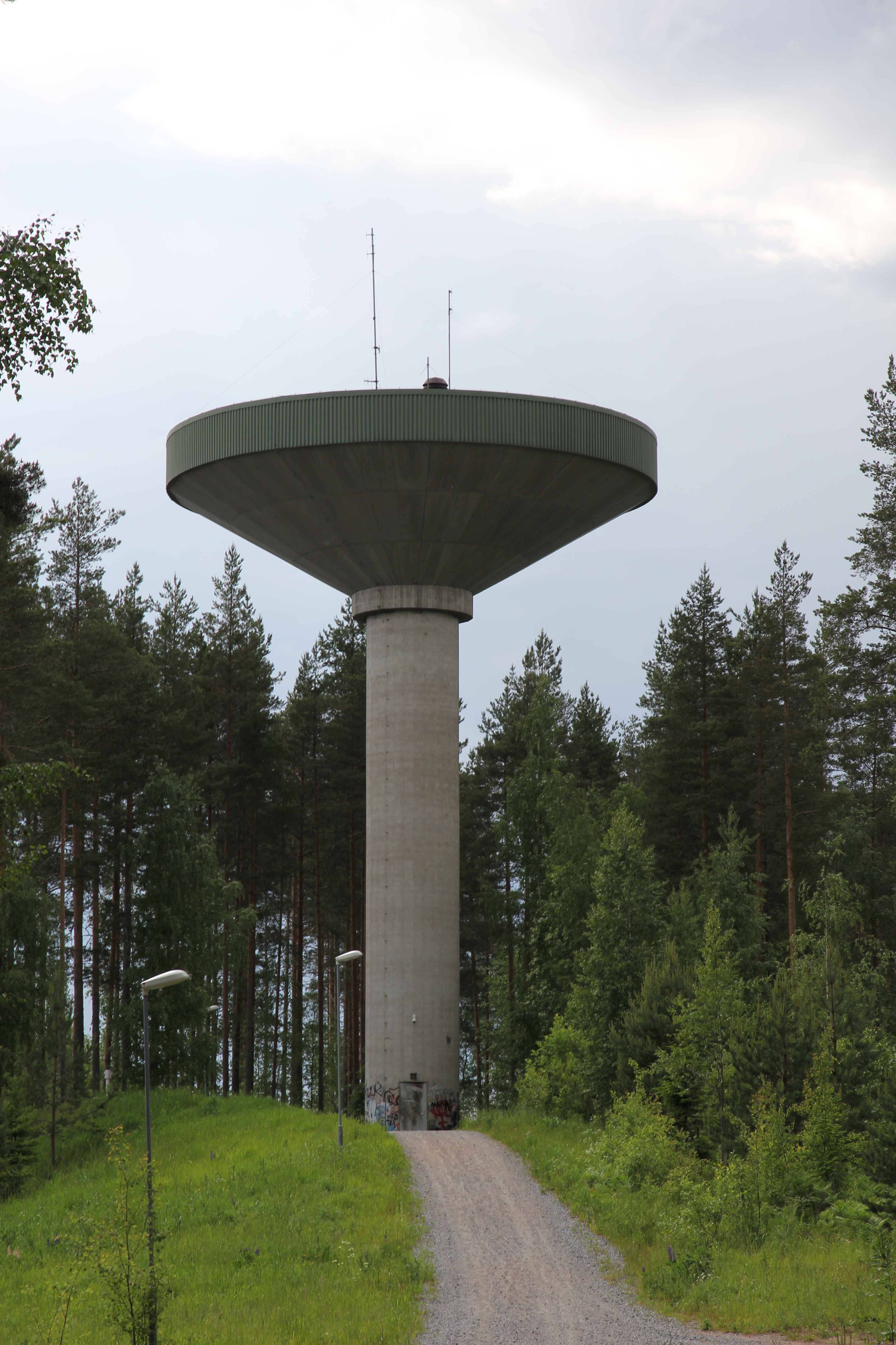 Rauha water tower.